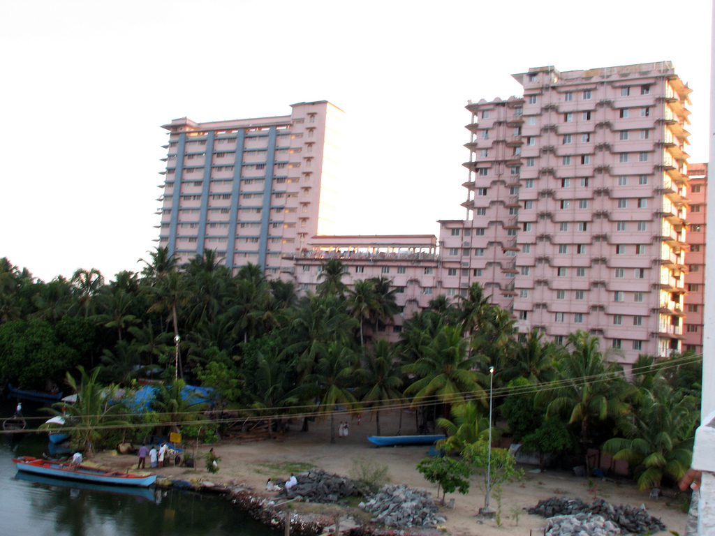 Amritapuri, Municipality of Karunagappally, Kerala